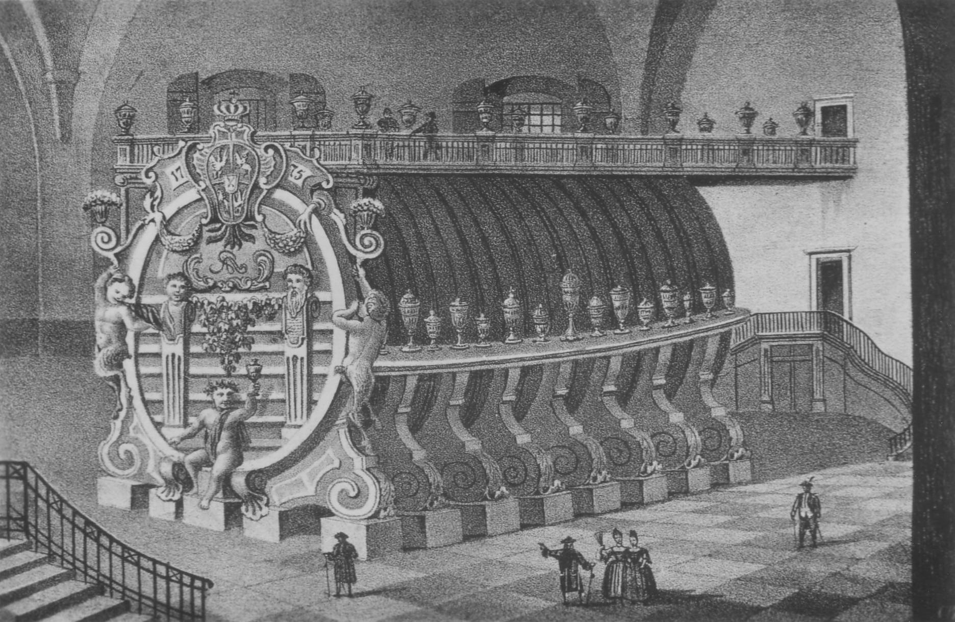 Festung Königstein - the Königsteiner Riesenfass (giant cask), 238.000 litre volumetric capacity, old lithograph, around 1840